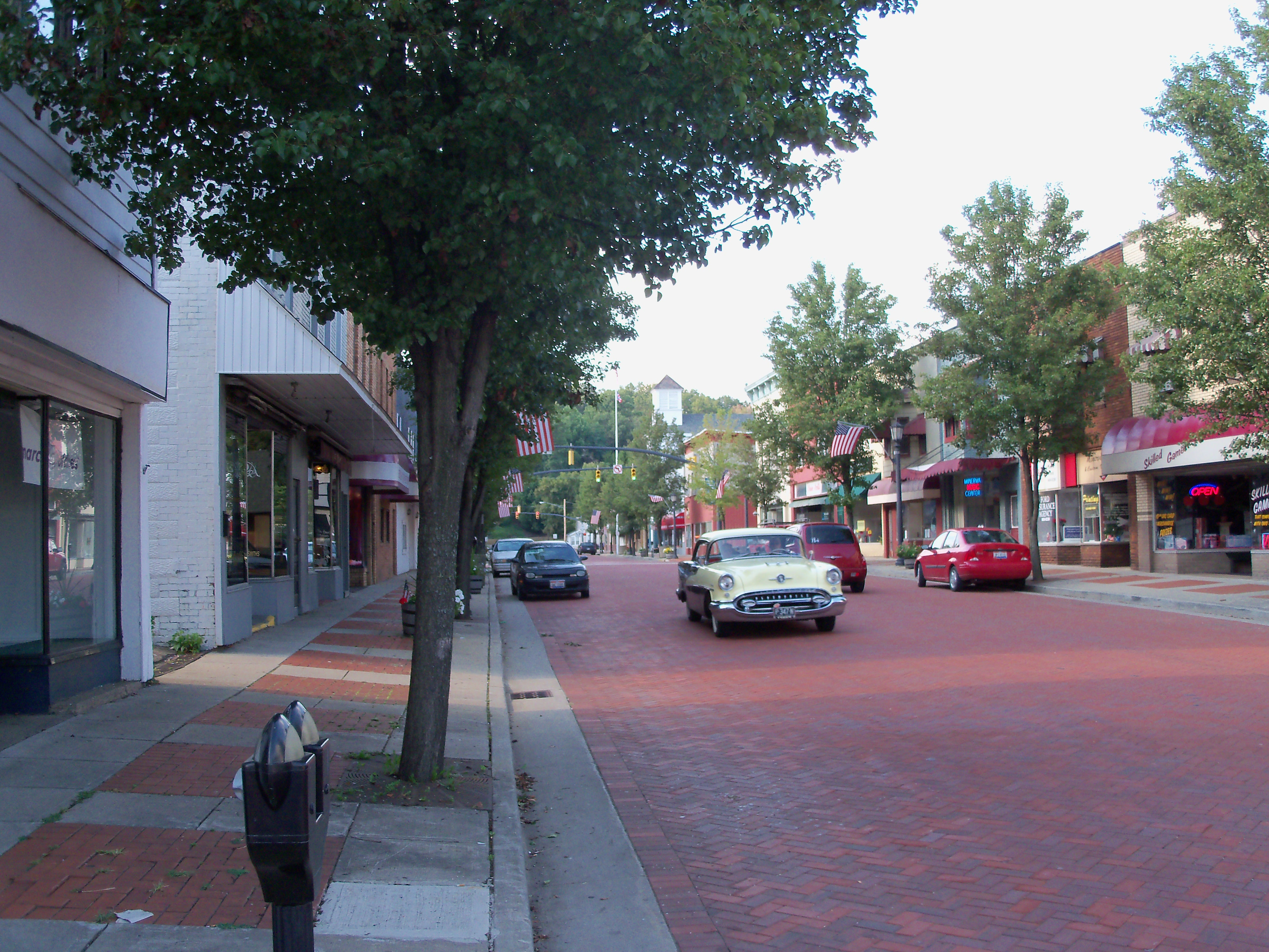 Market Street, downtown Minerva, Ohio.